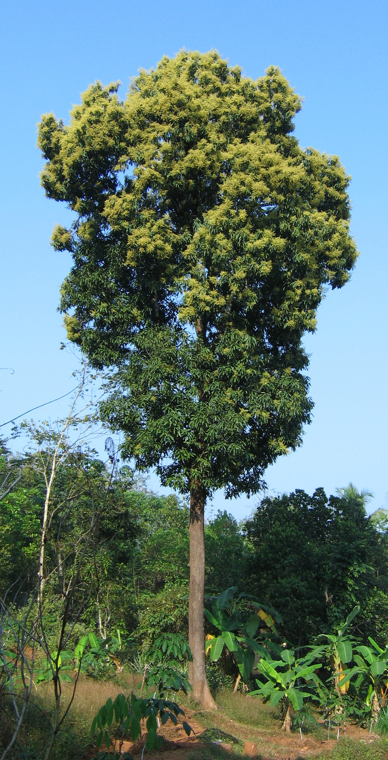 This is a kind of Mango tree seen in Kerala, called naaTTumaav. There are many varieties with different tastes. The trees grow very big and tall. Though it takes some years to start flowering, once it starts there are plenty of fruits to come. They are collected at young period it self to make pickles. They were seen all around Kerala once but slowly disappearing in the onset of mono-crop plantations.